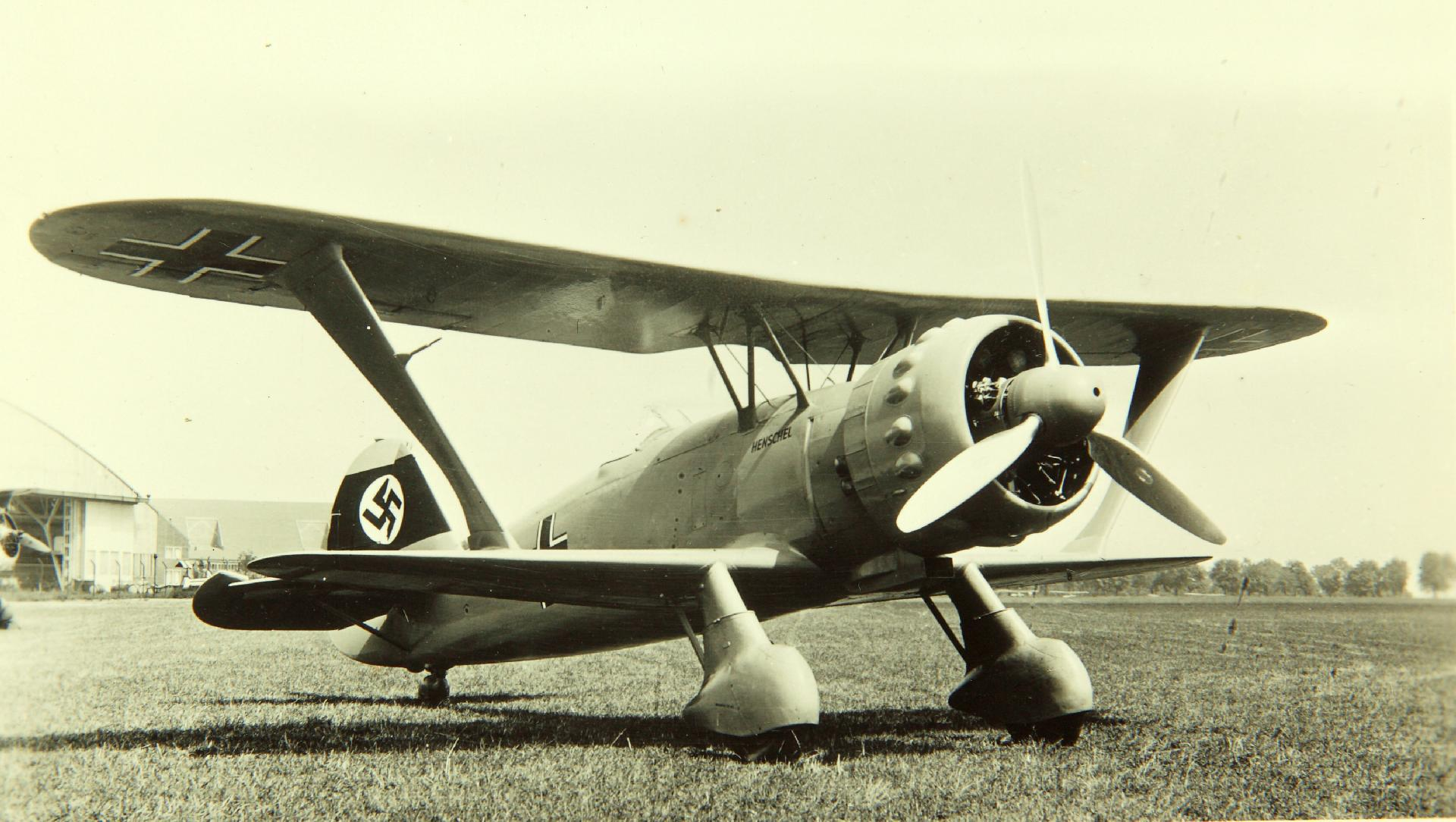 In 1938 Henschel flew the Hs 123 V5 prototype. Powered by a 716-kW (960-hp.) BMW 132K radial, the aircraft was the prototype for the cancelled Hs 123B